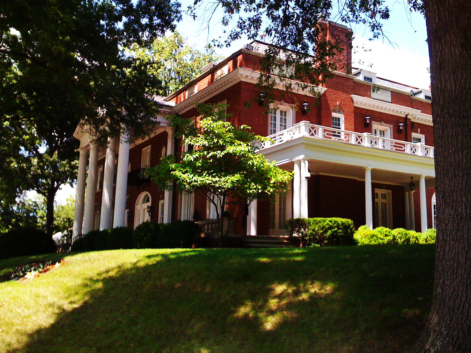 WV Governors Mansion